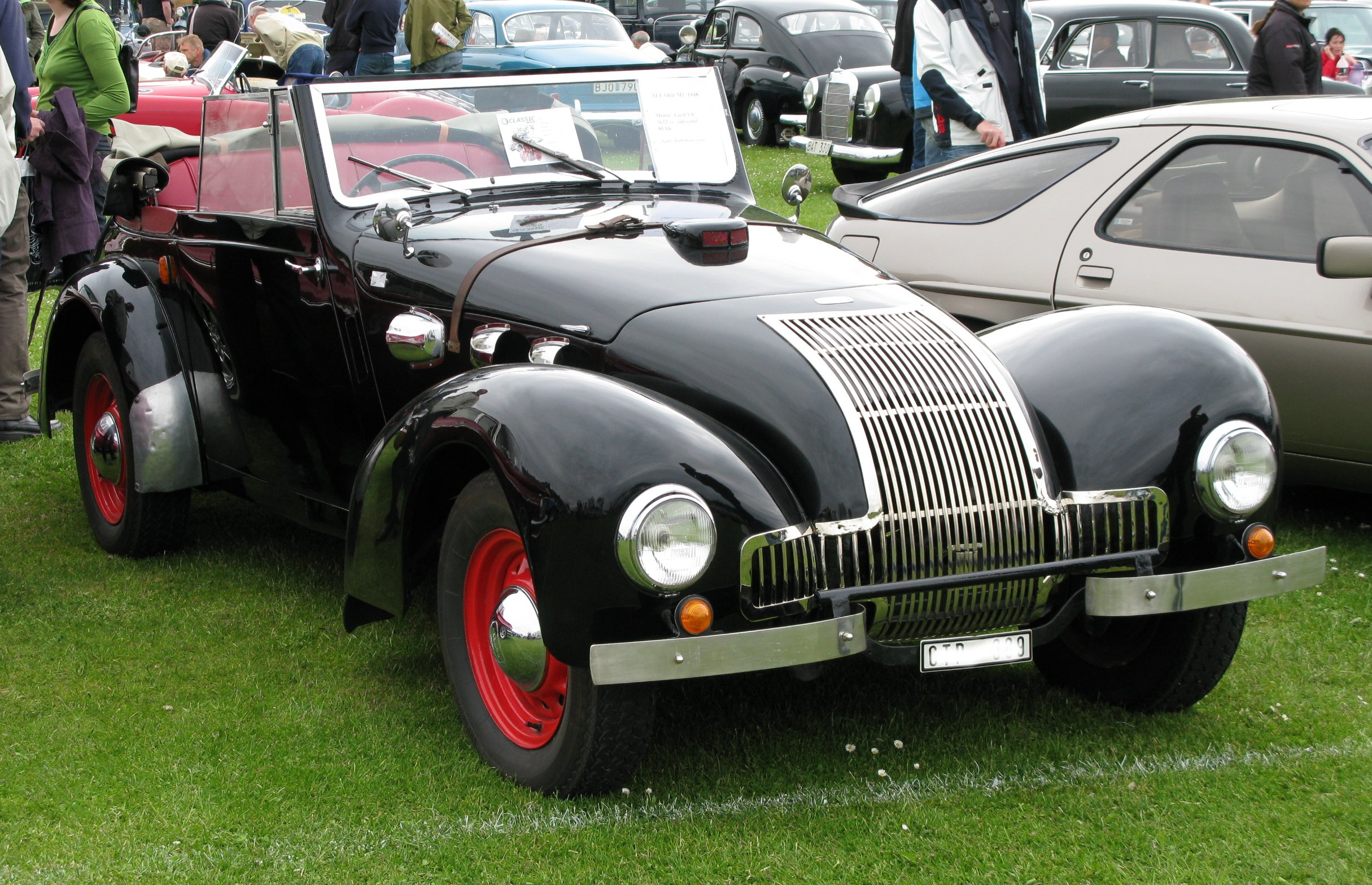 1948 Allard M1, with 221 cui Ford side valve V8.Event: Tjolöholm Classic Motor 2009